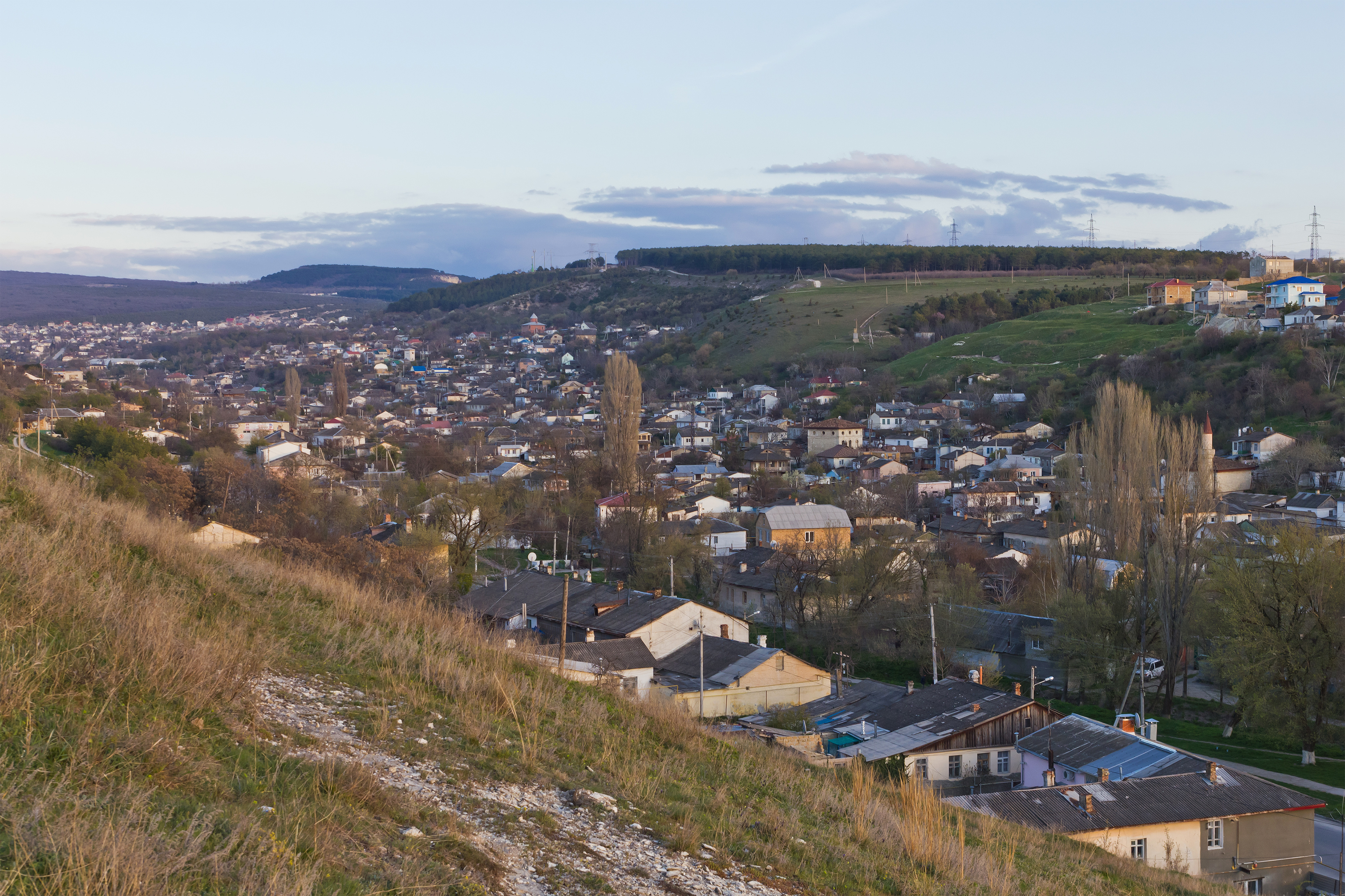 View to an old part of Bakhchisaray, Crimean Peninsula.